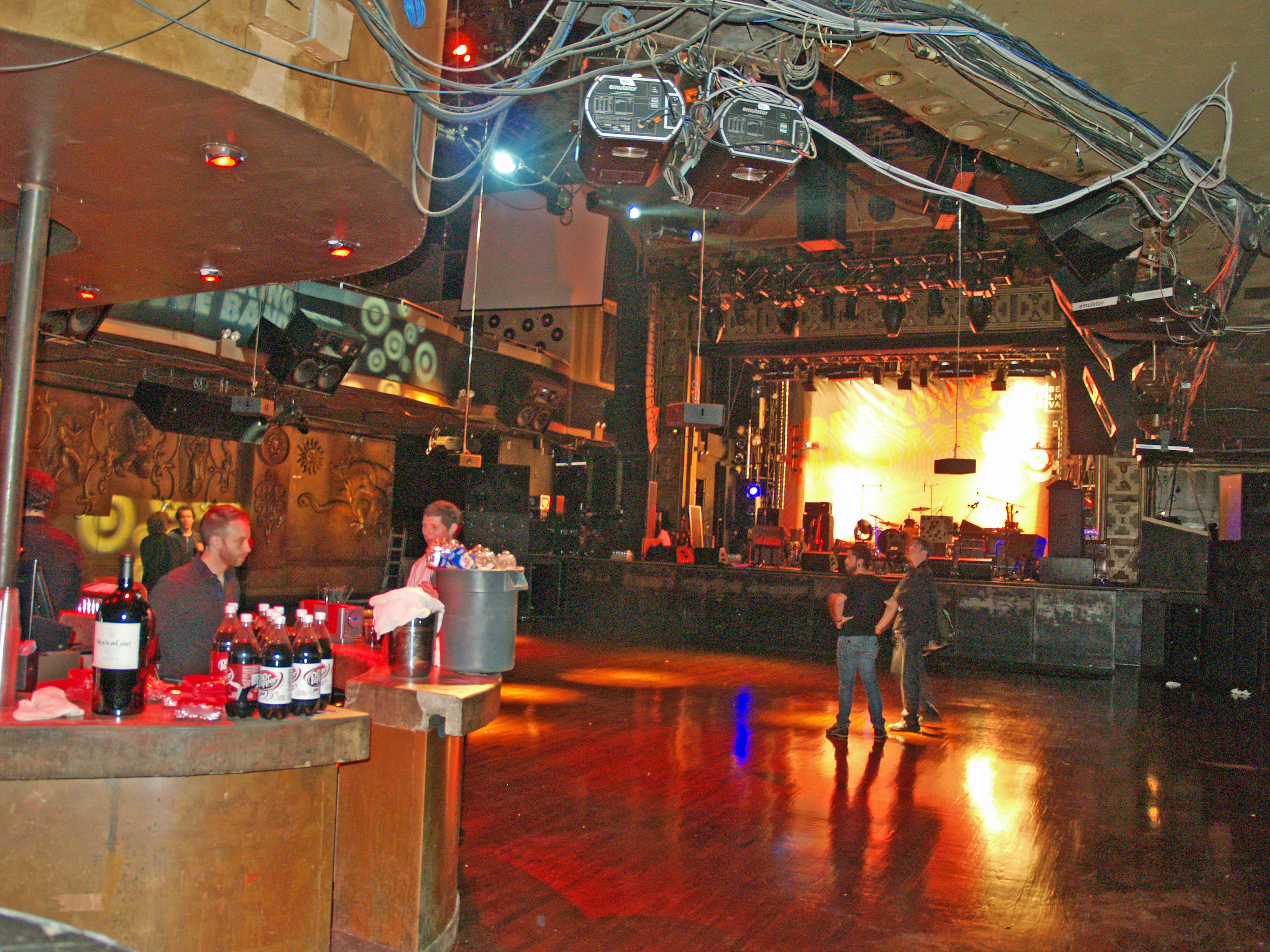 Webster Hall in New York City.